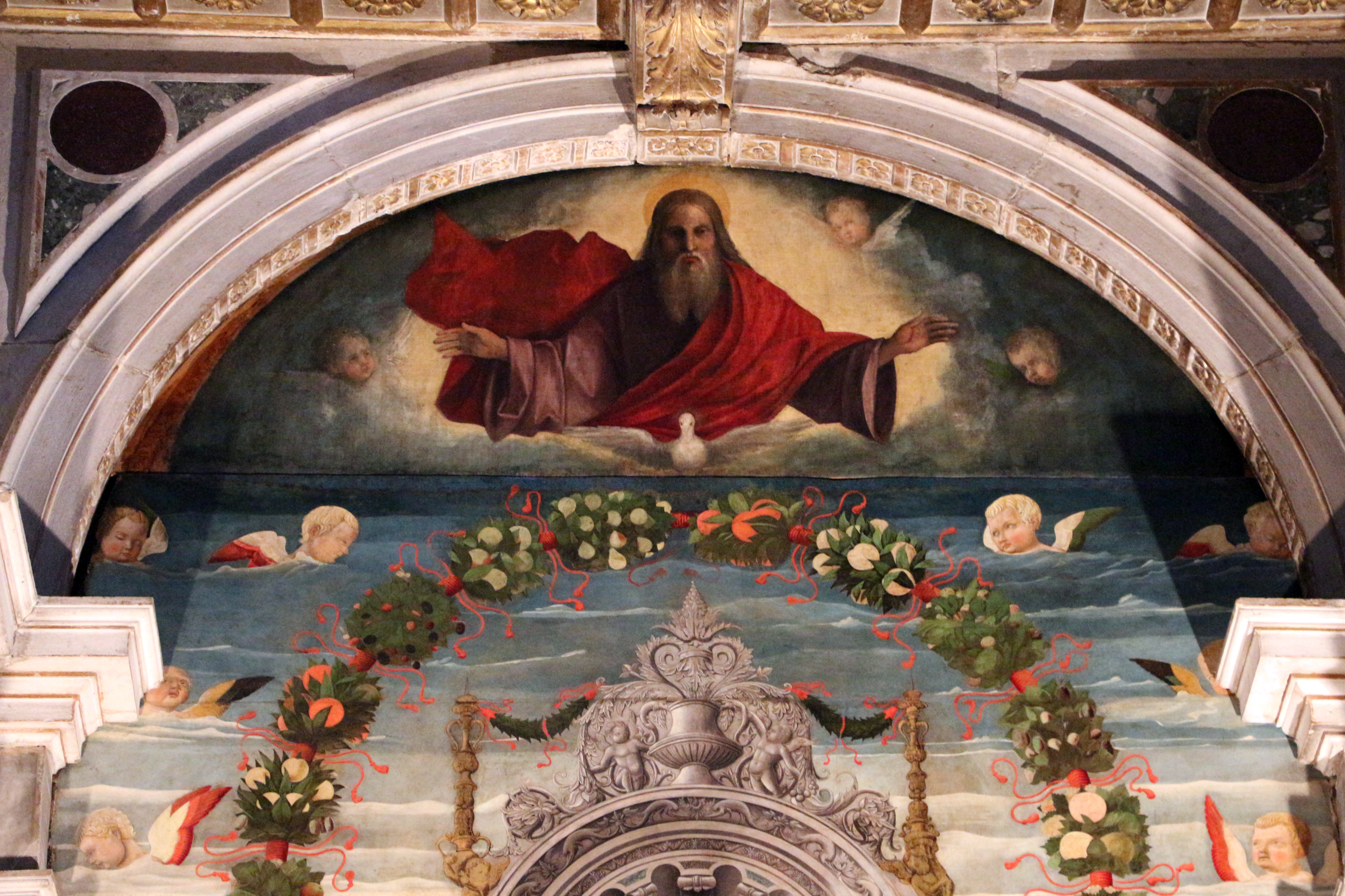 Madonna and Child Enthroned by Antonio da Negroponte